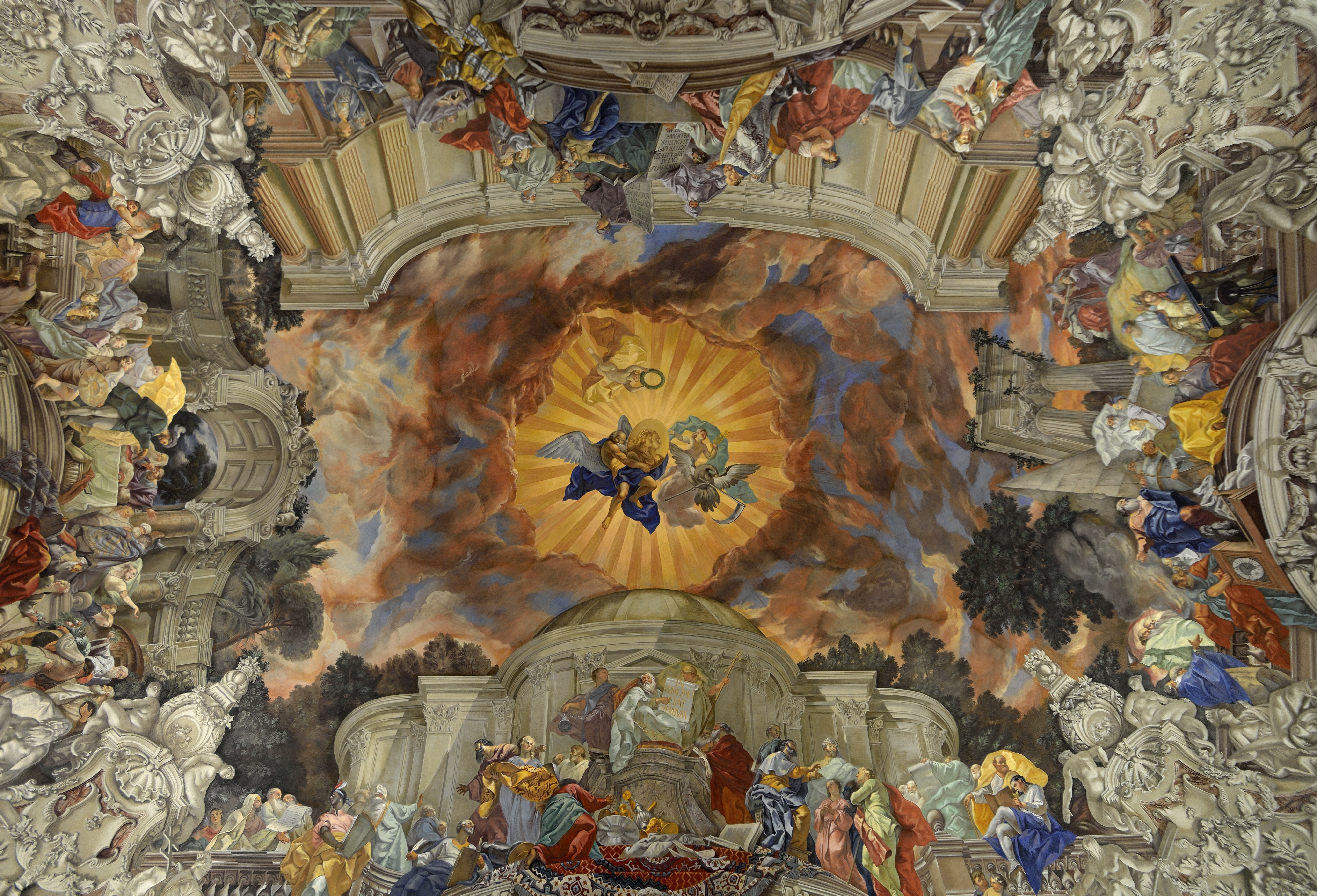 Ceiling painting of Gregorio Guglielmi in the festival room of the Austrian Academy of Sciences